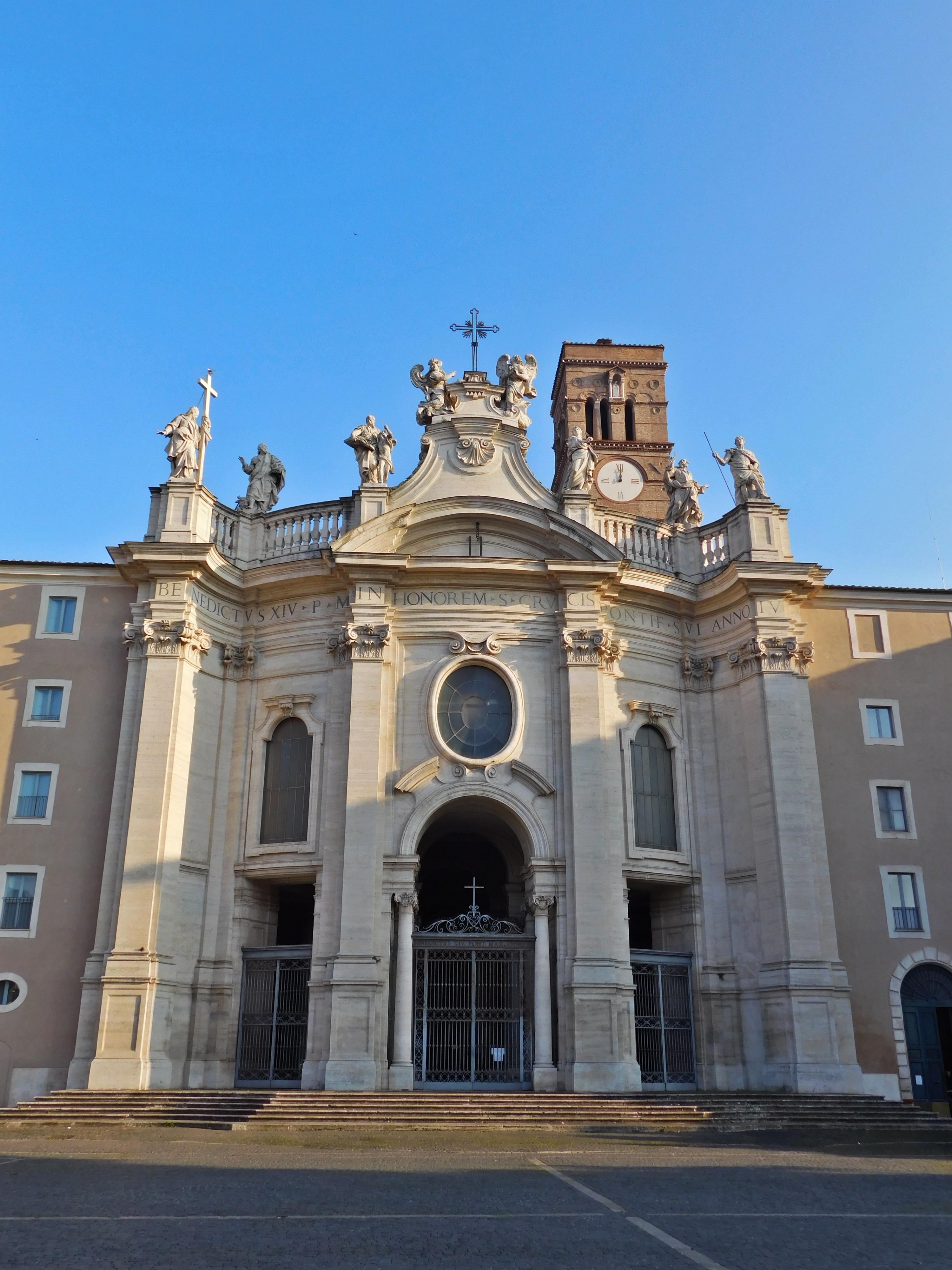 Basilica of the Holy Cross in Jerusalem (one of the Seven Pilgrim Churches of Rome)